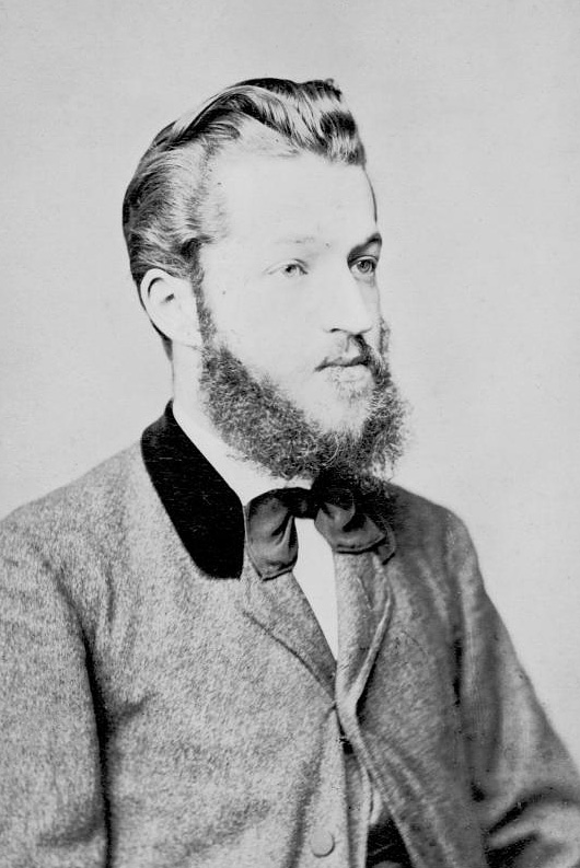 The portrait of German dirigent Max Erdmannsdörfer